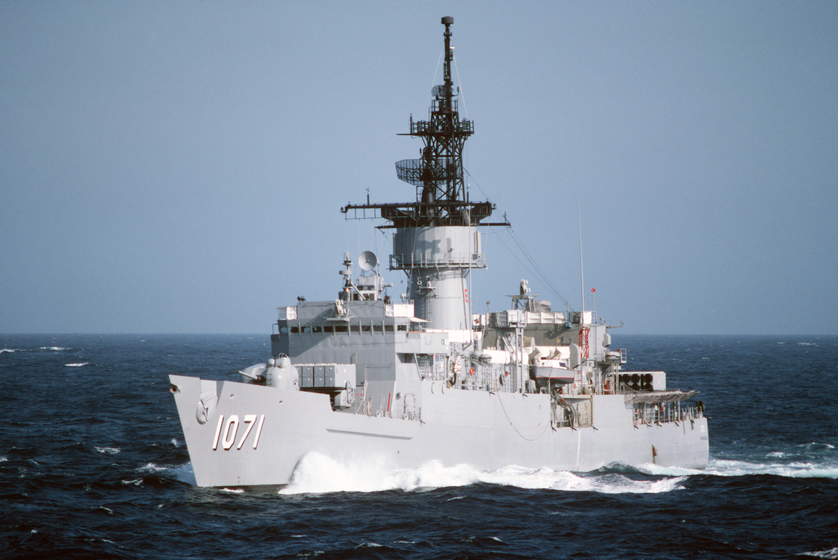 A port bow view of the frigate USS BADGER (FF 1071) underway during a midshipmen's summer training cruise.